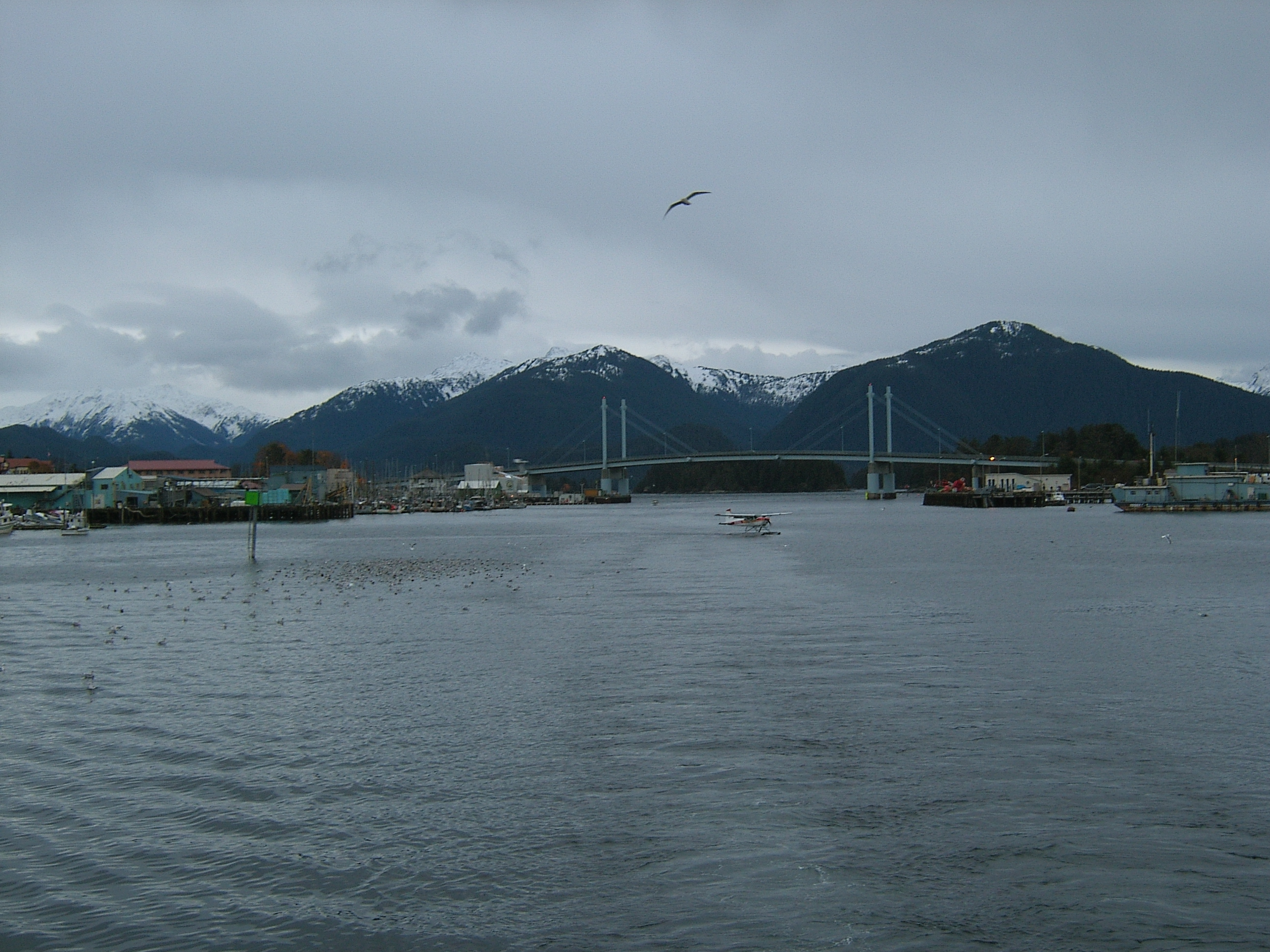 View of Sitka Channel taken in the early morning.